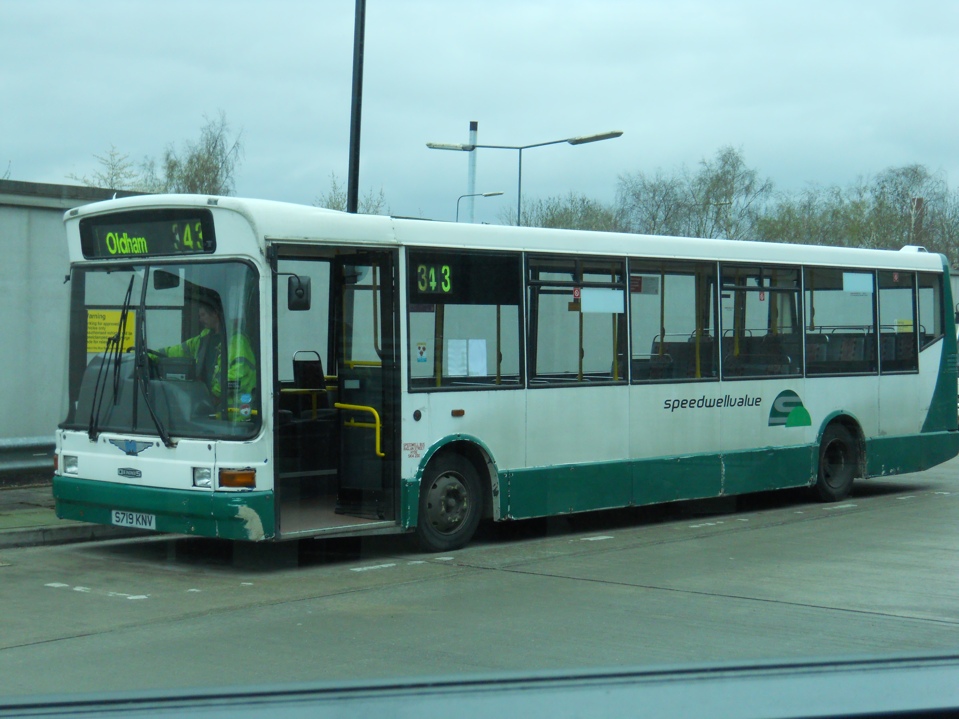 Seen at Hyde Bus Station on Monday 4th April, this is a Marshall-bodied Dennis Dart which was new to Expertpoint (according to the Bus Lists on the Web page), looking pretty down at heel! It's currently under Speedwellbus ownership who's services are primarily in Tameside and neighbouring Glossop, Derbyshire. The 343 is probably one of the most scenic bus routes in Greater Manchester as it serves Dukinfield, Stalybridge, Carrbrook, Mossley and then Grotton before reaching it's final destination which is Oldham The "NV" mark originates from Northampton priror to September 2001